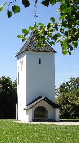 Swister Tower Chapel in Weilerswist, Germany.